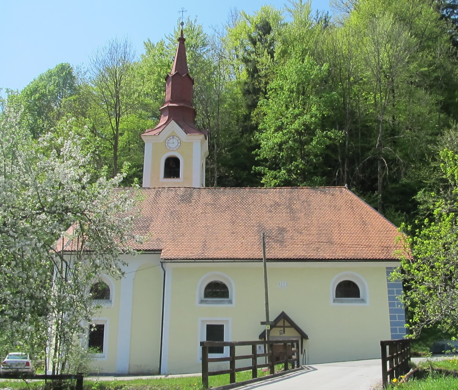 The Church of Saint Lawrence in Hotavlje, Municipality of Gorenja Vas–Poljane, Slovenia